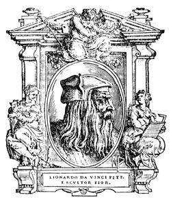 Illustratio from "Le Vite" by Giorgio Vasari, edition of 1568. For the artist portrayed see filename